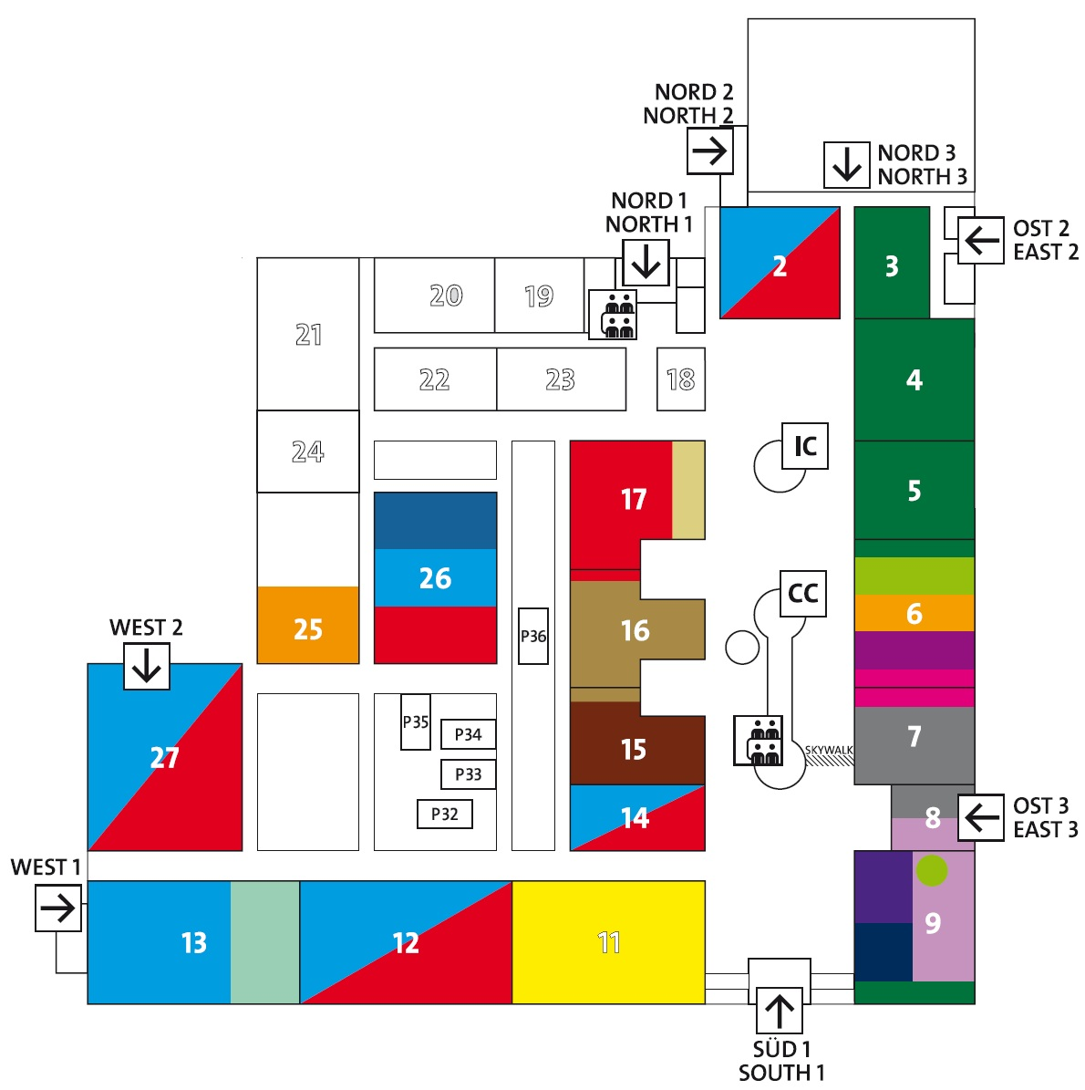 Map of exhibition grounds for EMO 2019